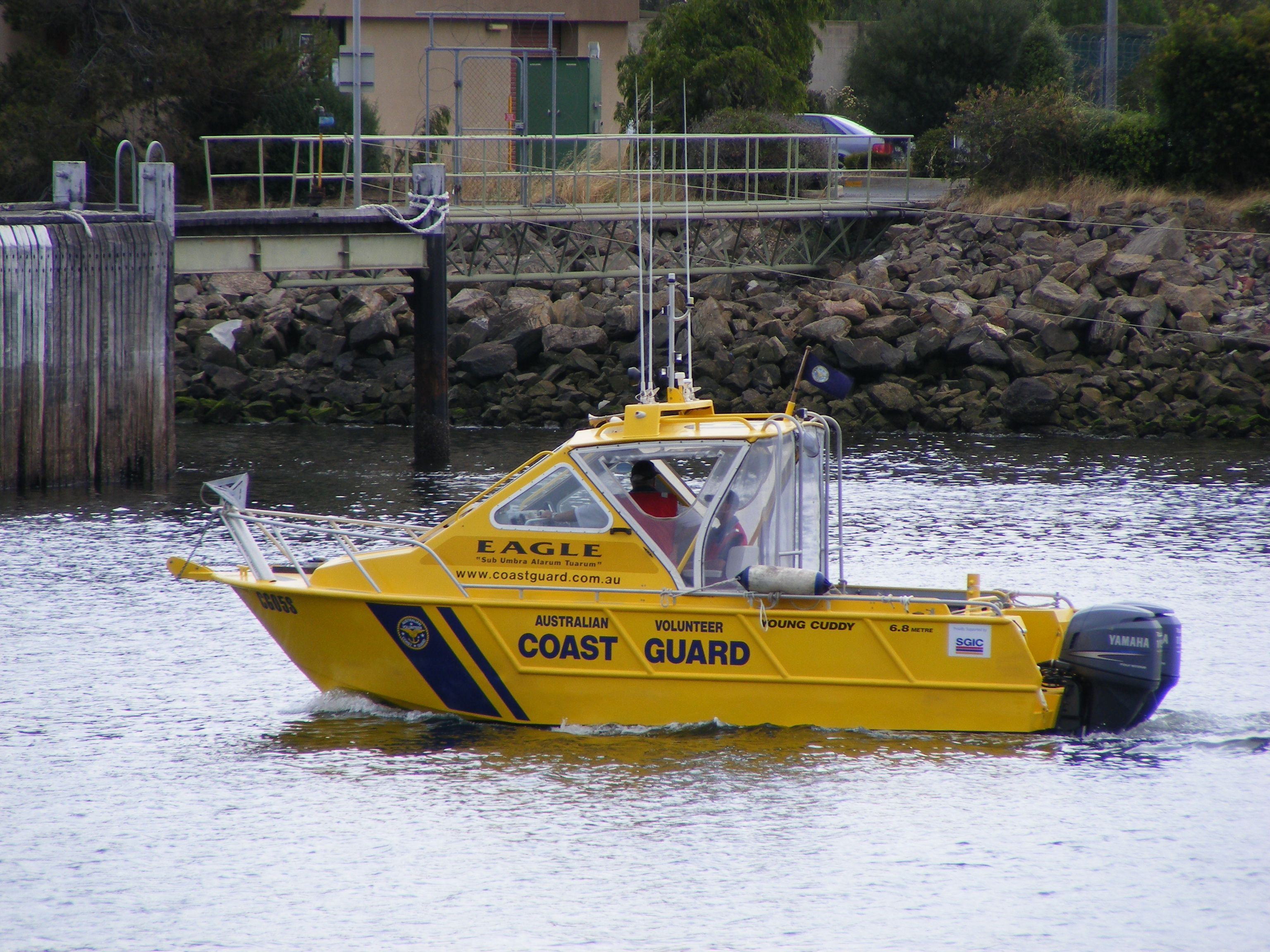 A small boat of the Australian volunteer coastguard, near Birkenhead Bridge, Port Adelaide, South Australia